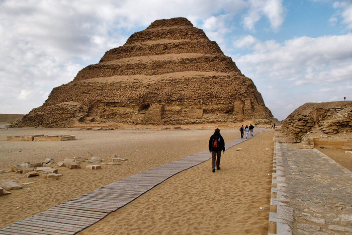 Djoser's Step pyramid, Saqqara own photo, feb 6, 2005 photo: nomo/michael hoefner